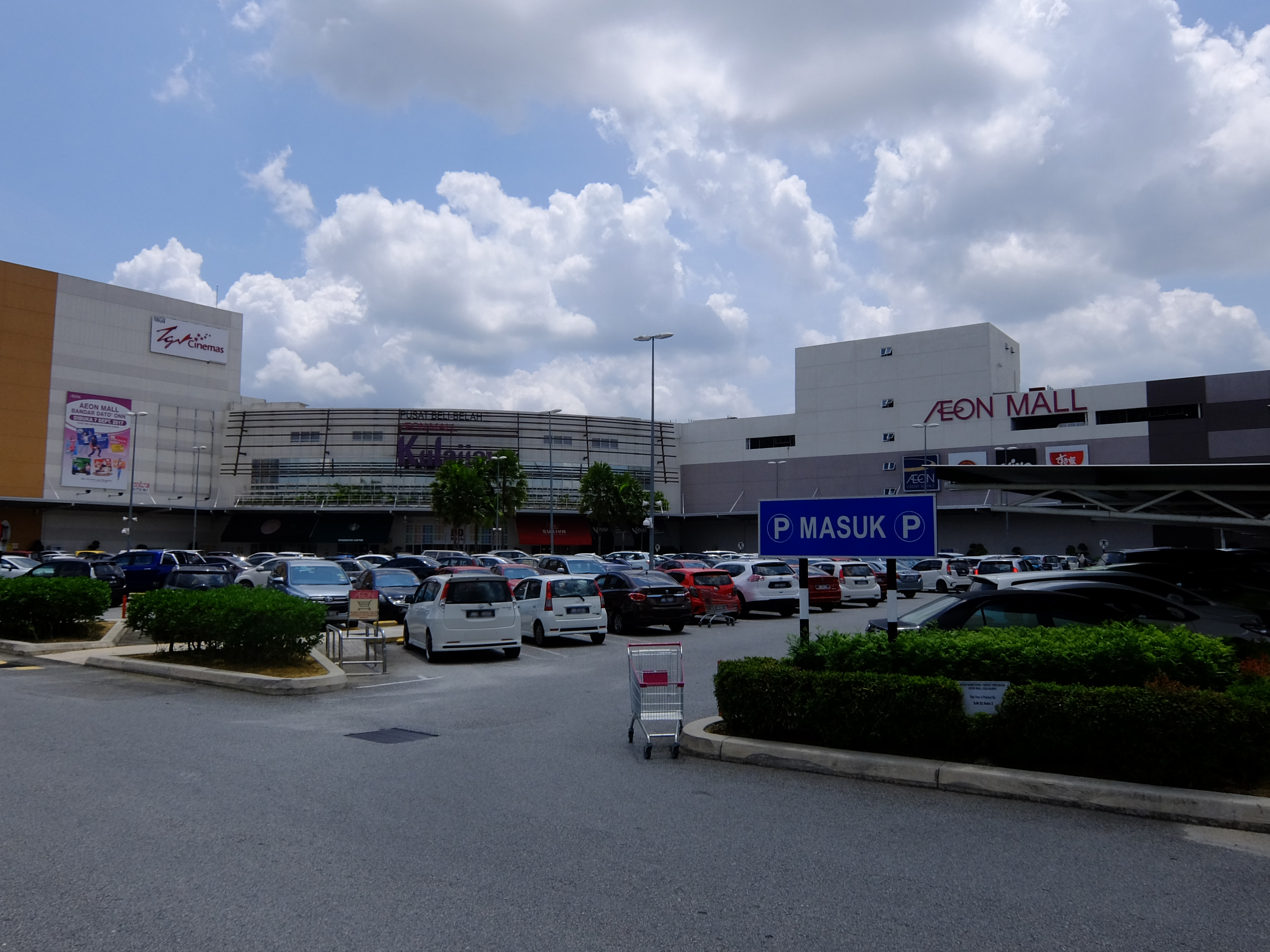 AEON Kulaijaya, Indahpura, Kulai, Johor, Malaysia